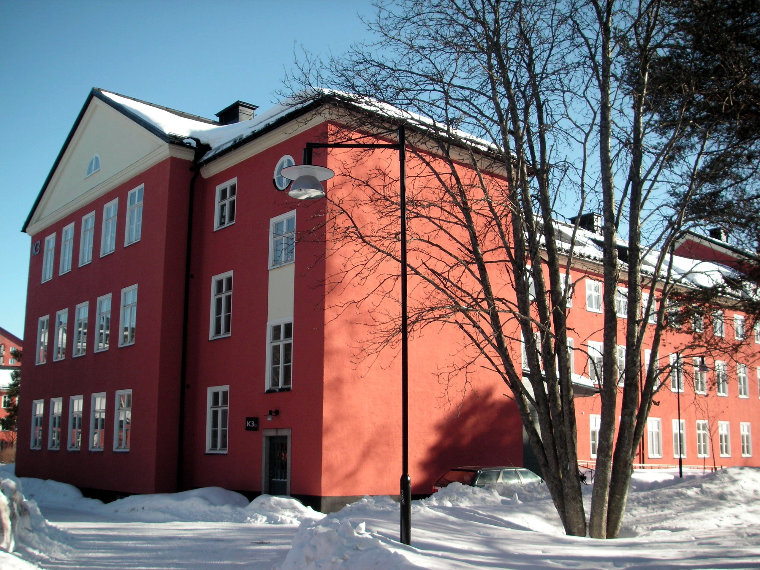 Building K3 from what used to be "Umedalen Mental Hospital" in Umeå, Sweden.Byggnad M36 från gamla Umedalens sjukhusområde, Umeå.